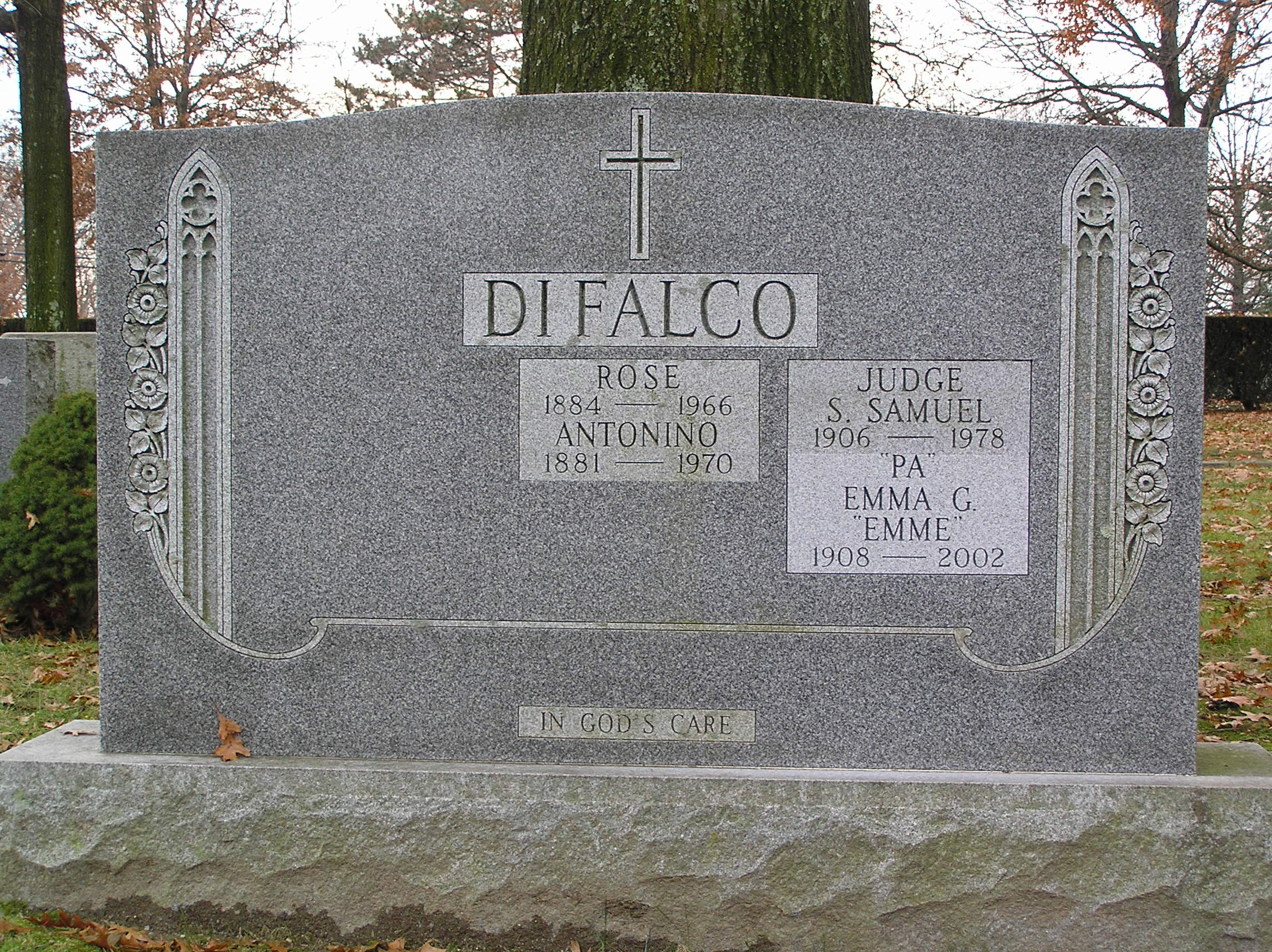 The gravesite of Judge S. Samuel DiFalco in Gate of Heaven Cemetery